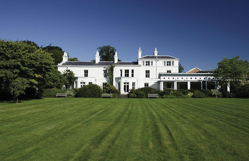 this is a photograph taken for me as Marketing Manager and which we therefore own. I release any copyright on the image.